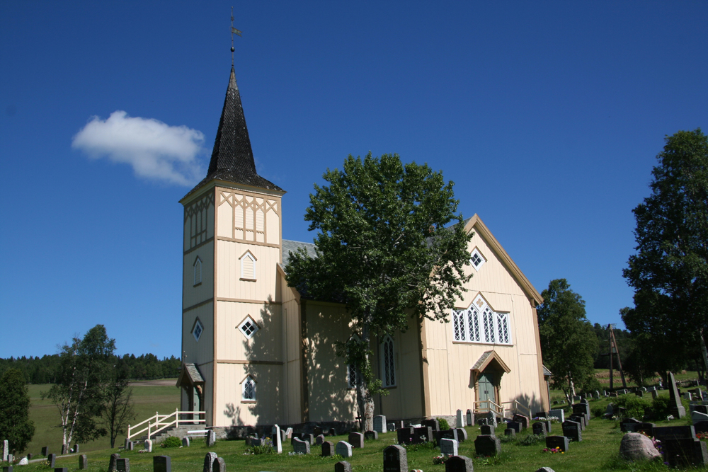 Os Church, Hedmark